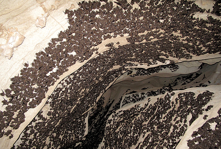 Fern Cave is home to the biggest gray bat wintering colony in the United States.